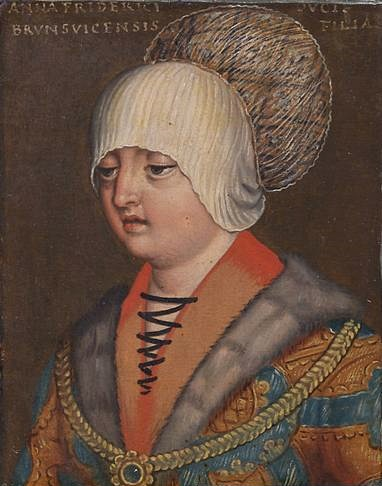 Anna von Braunschweig (+ 1432), Frau von Erzherzog Friedrich IV. von Österreich